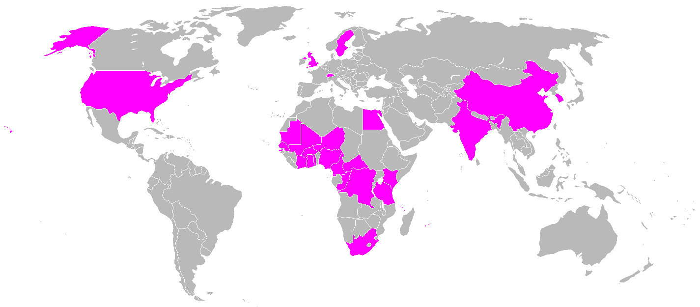 World map of countries with citizens on the Kenya Airways flight 507 that crashed in Cameroon on May 5, 2007.